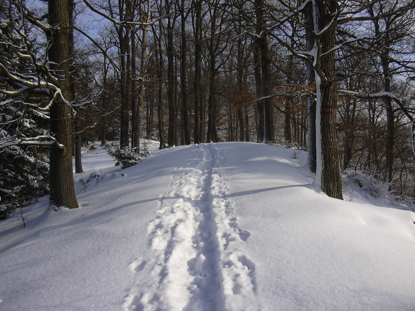 Kuchyňka nature reserve on the ridge of Brdy (Hřebeny), Czech Republic